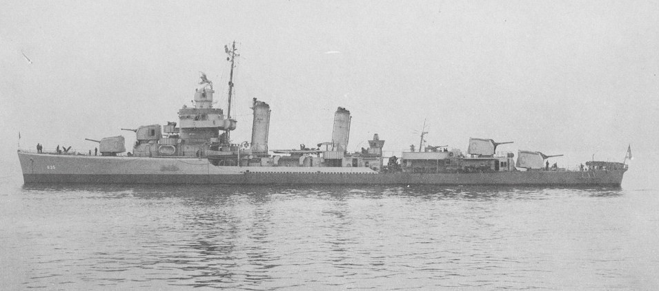 USS Earle (DD-635), January 1943 at New York Navy Yard, USN/ONI photo.